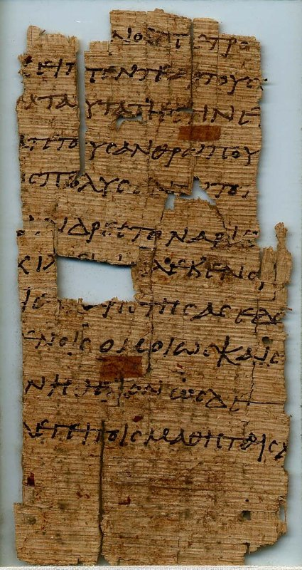 fragment with text of John 6:8-12